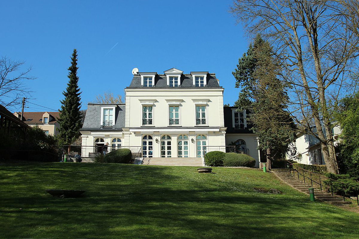 The Raymond Devos Museum is located in Saint-Rémy-lès-Chevreus, Yvelines, France. Object location48° 42′ 22.72″ N, 2° 04′ 33.53″ E